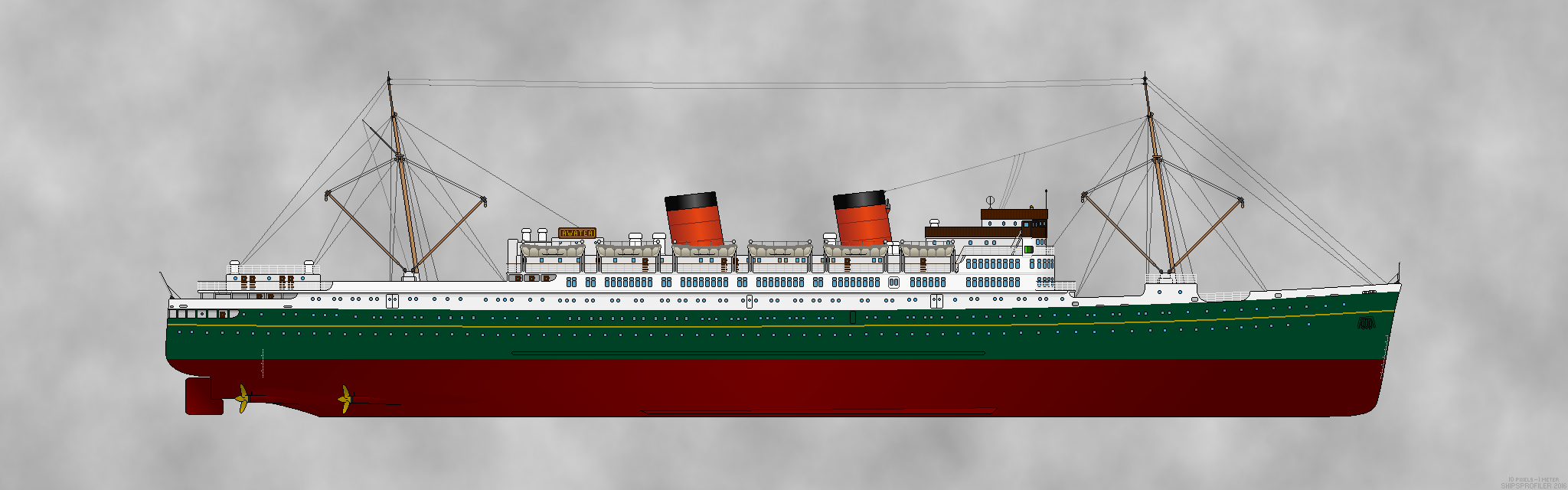 Union Steam Ship Company of New Zealand (USSCo) Trans-Tasman Express Liner TSS Awatea 1936-1942